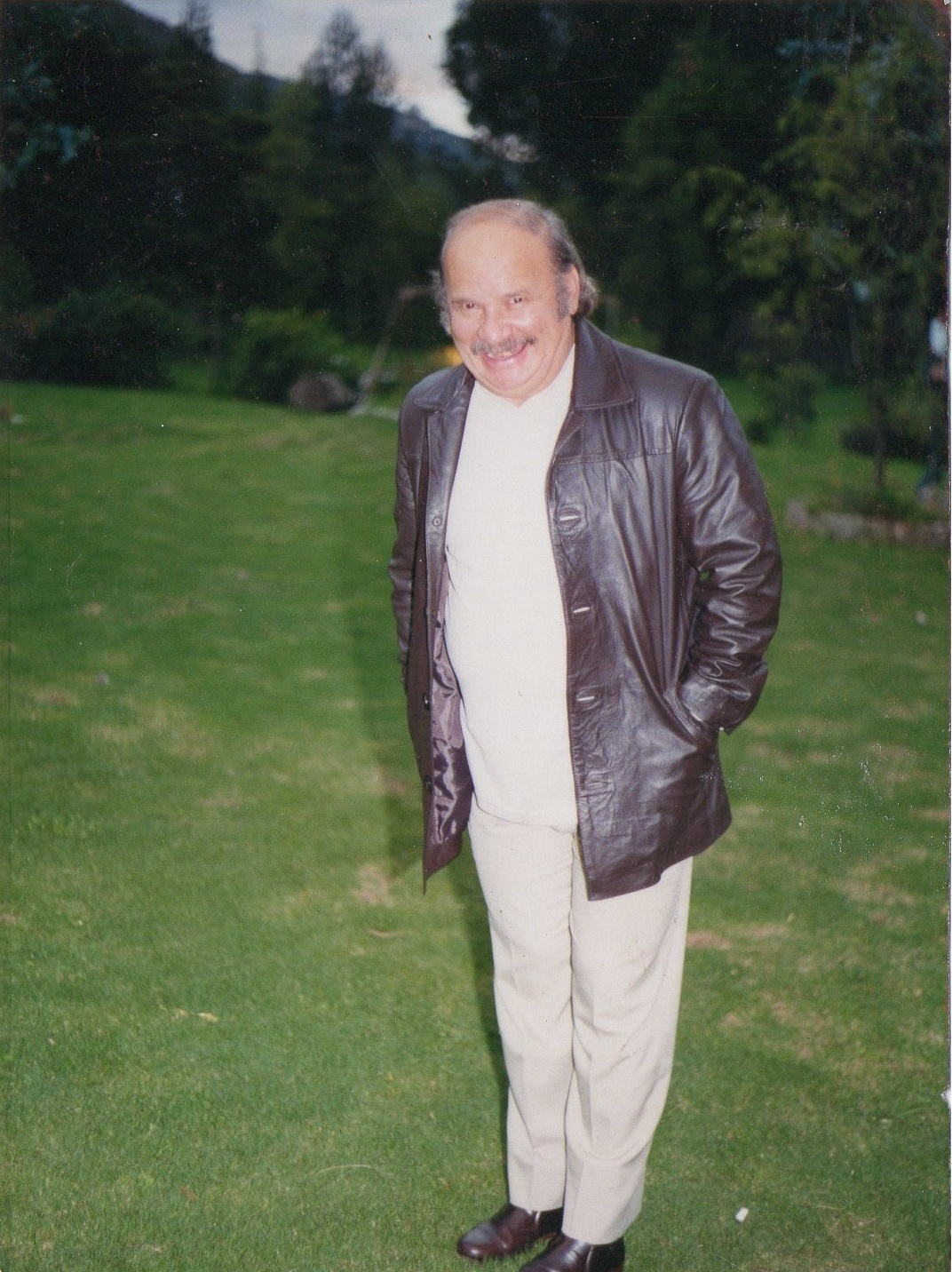 Late actor Hernando Casanova